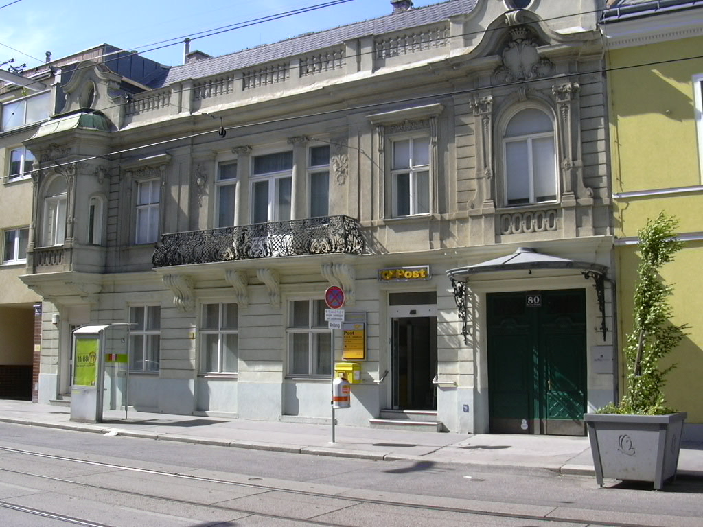 Elisabeth Marie Auguste of Bavaria, granddaughter of Emperor Franz Joseph I., lived in this mansion in the first decades of the 20th century and was visited here by the emperor. Today the building houses post office # 1132 of Vienna (address: 13th district, Hietzinger Hauptstrasse 80.